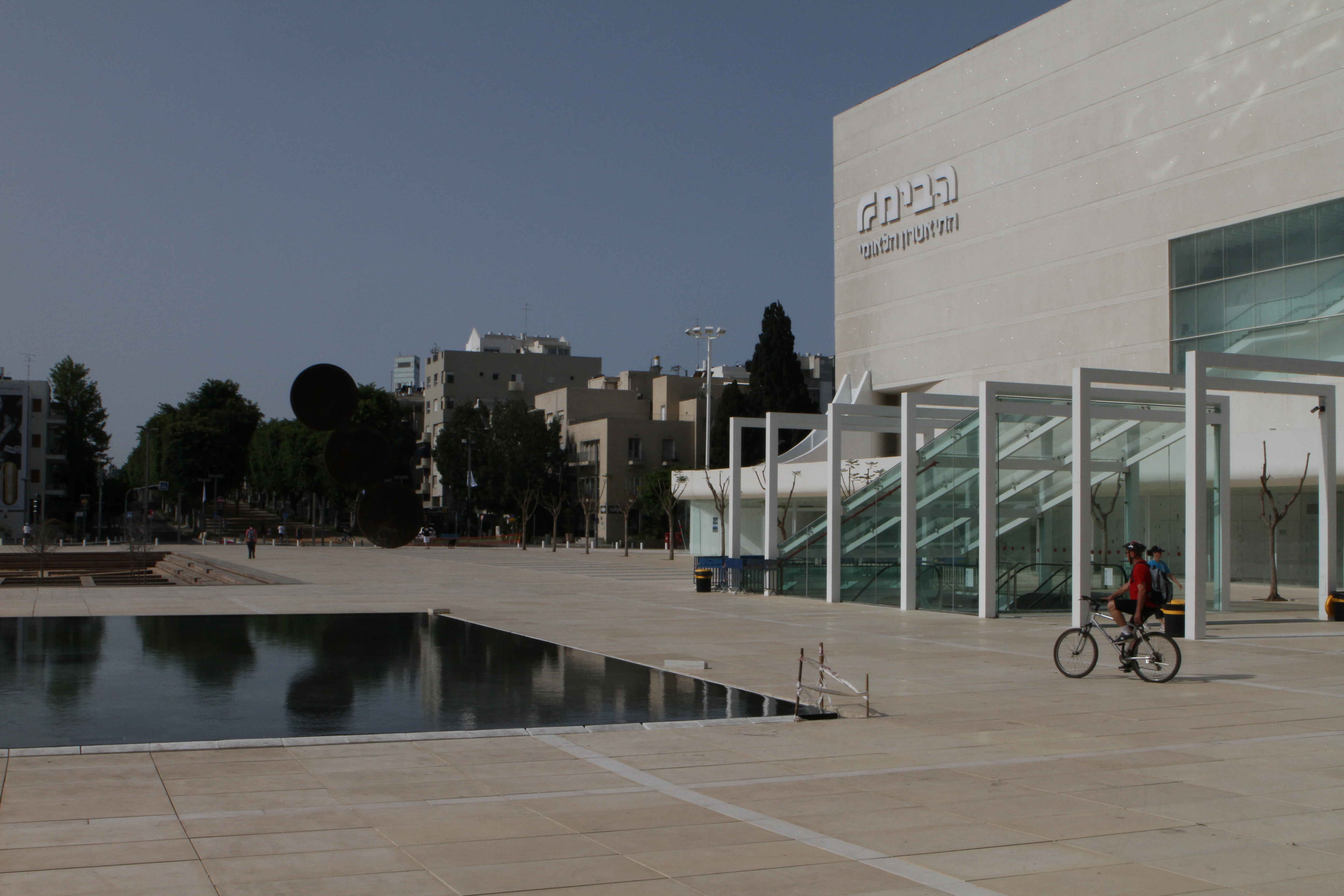 Habima National Theatre New Building in Tel Aviv